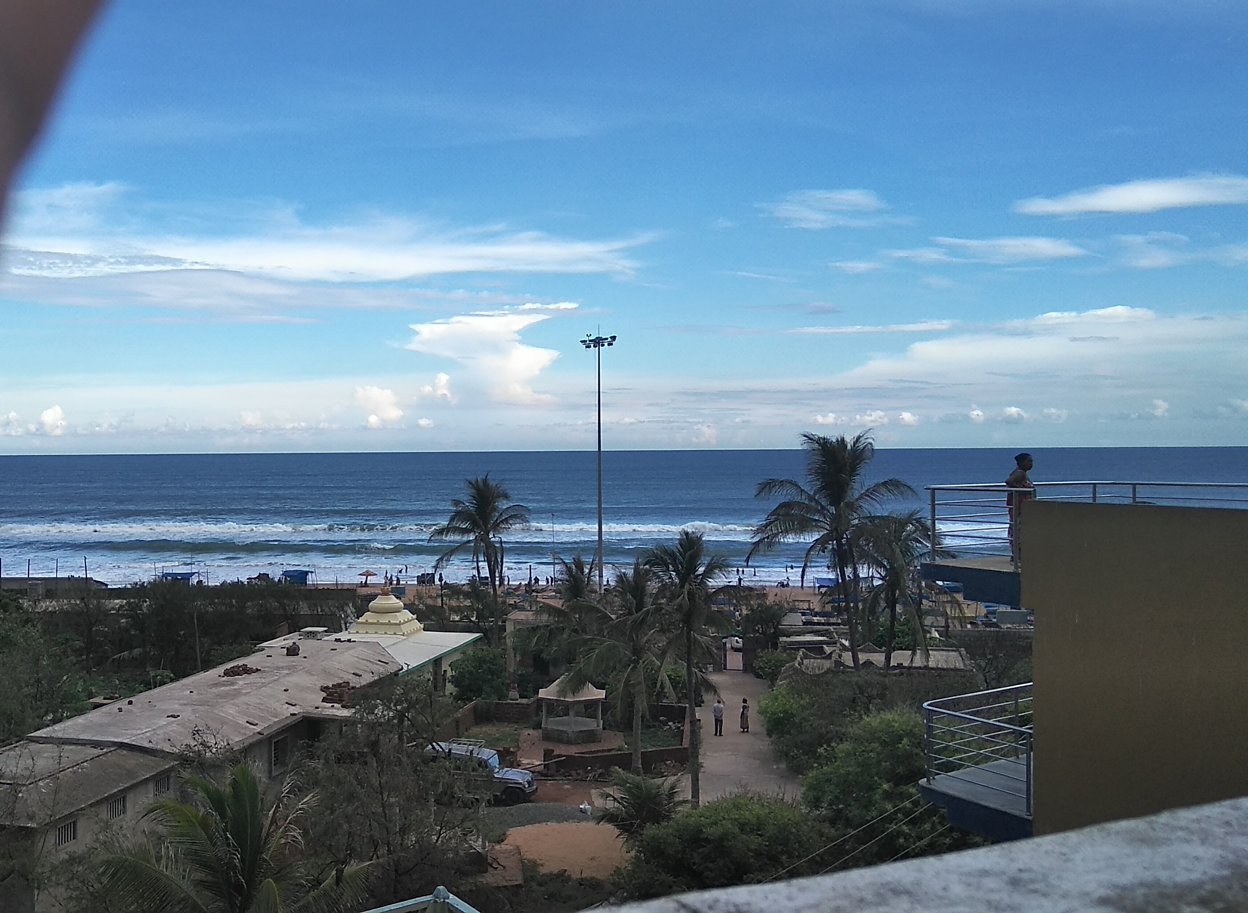 Puri sea beach viewed